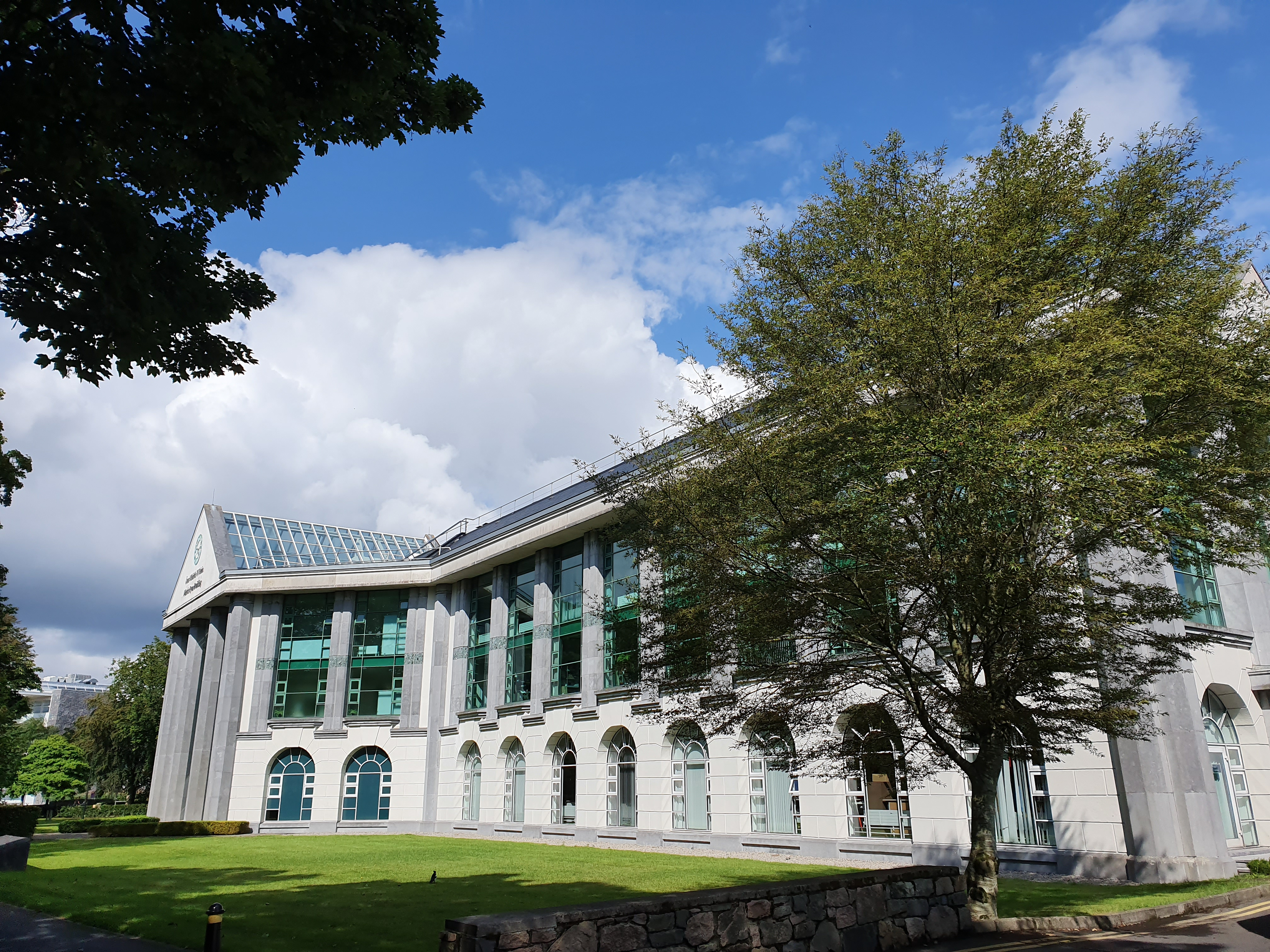 Martin Ryan Institute, NUI Galway